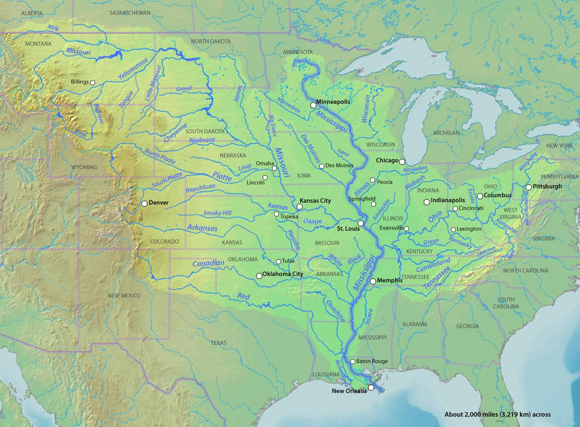 Map of Mississippi River